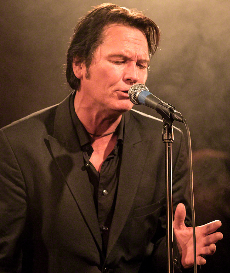 Paal Flaata at the stage of Parkteatret. The concert took place on 29. September 2016 in Oslo. The concert marked the release of the album "Come tomorrow". This is the final album in the triology "Songs of...".Lineup:Paal Flaata (guitar / vocal)unidentified (keyboard)unidentified (guitar)unidentified (bass)unidentified (guitar)unidentified (drums)unidentified (violin)unidentified (choir)unidentified (choir)unidentified (choir)unidentified (trombone)unidentified (trumpet)unidentified (saxophone)Maia Flaata (vocal)